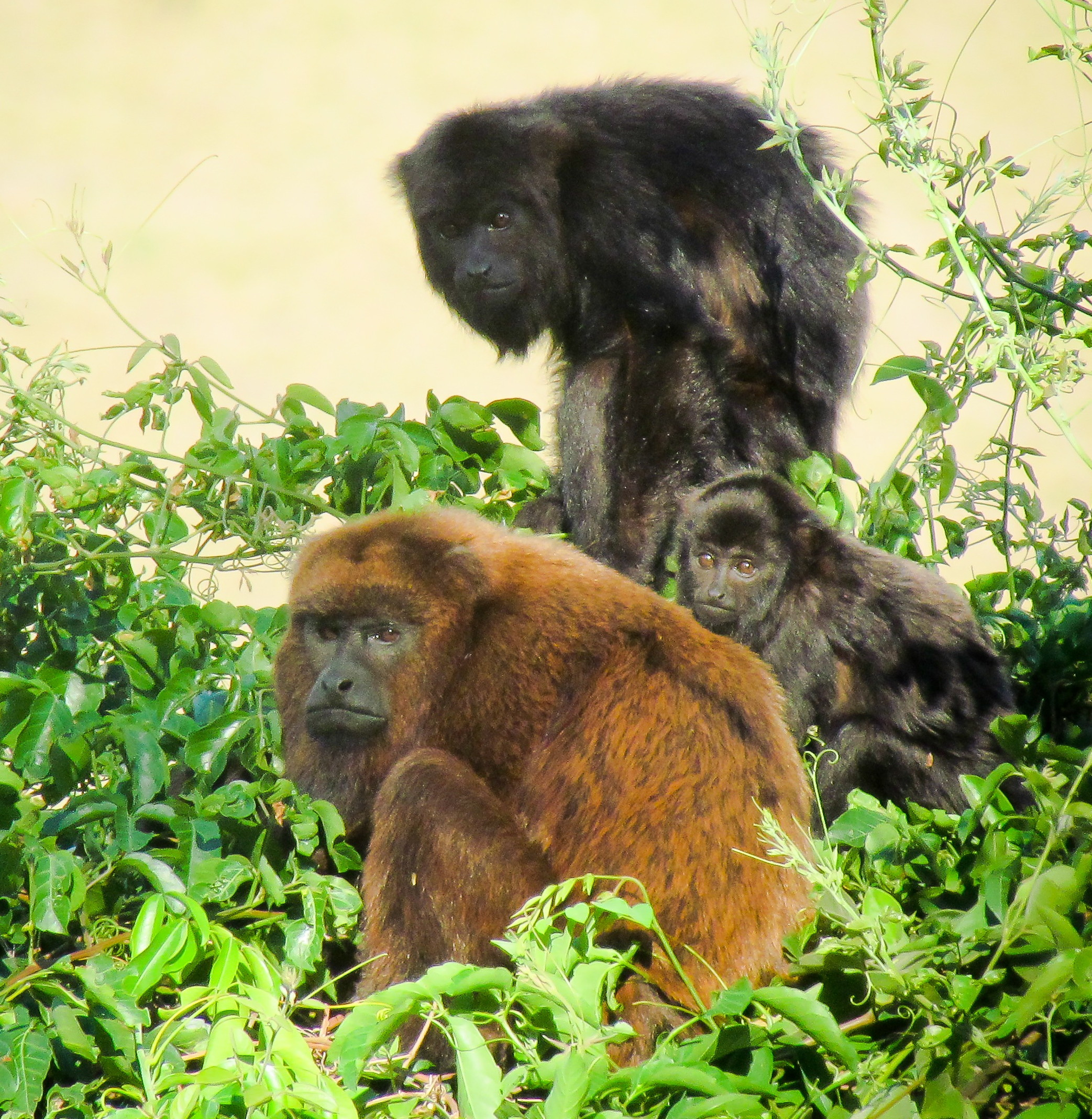 Brown howler monkey (Alouatta guariba clamitans) in Monte Alegre do Sul, São Paulo State, Brazil. Male (brownish color) and female (blackish color).